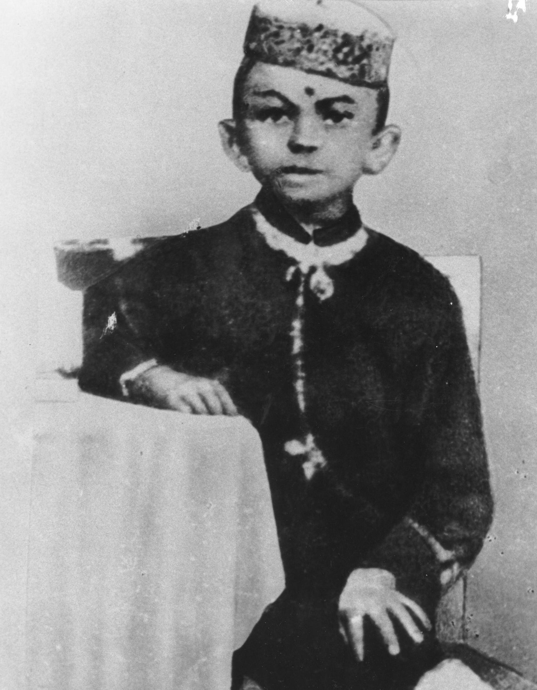 Young Gandhi, at the age of 7, in 1876. It is the only existing picture of Gandhi as a child.